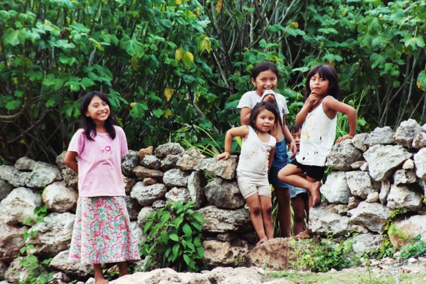 Niños mayas